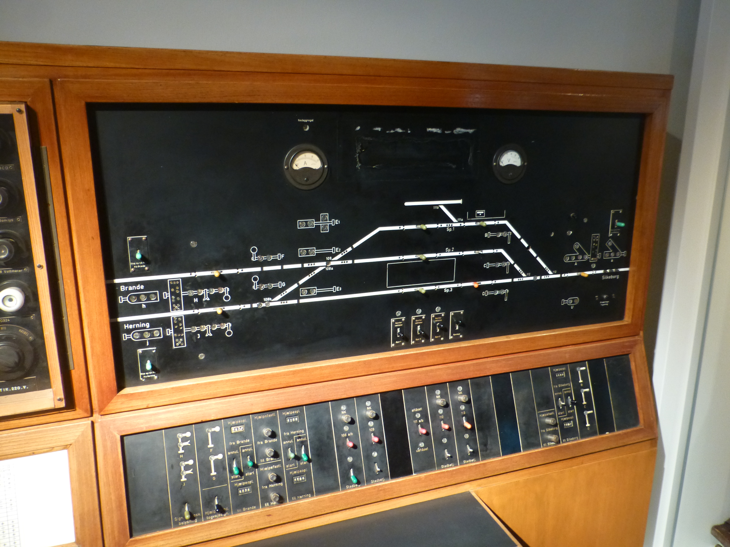 Safety exhibition at Danmarks Jernbanemuseum in Odense in Denmark. Old interlocking machine from Funder Station in Middle Jutland.